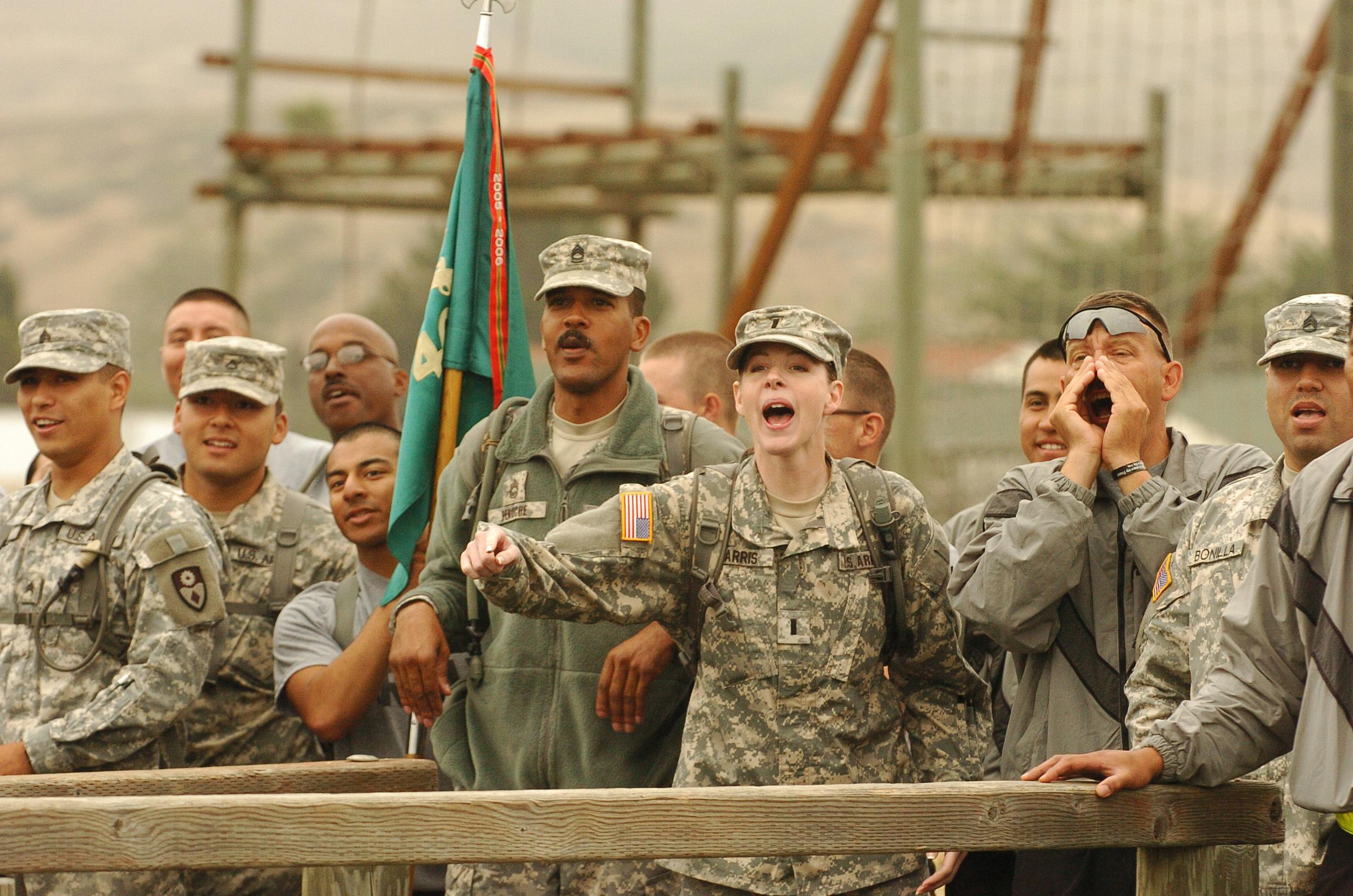 First Lt. Cassandra Harris, company commander of the 40th Military Police Company, 185th Military Police Battalion, 49th Military Police Brigade, California Army National Guard, and members of her unit cheer a competitor of the July 21 Obstacle Course Challenge at Camp San Luis Obispo, Calif. The event was a morale builder on the last day of the 185th's annual training.